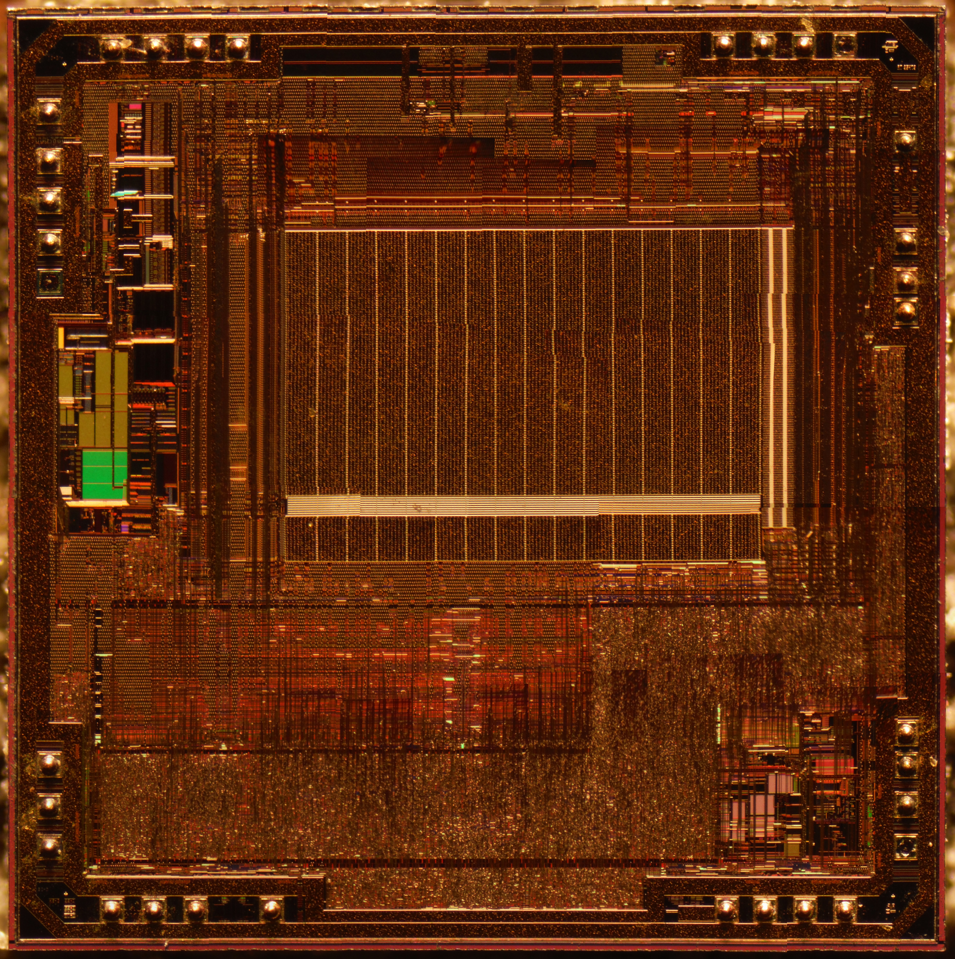 MEGA328P die